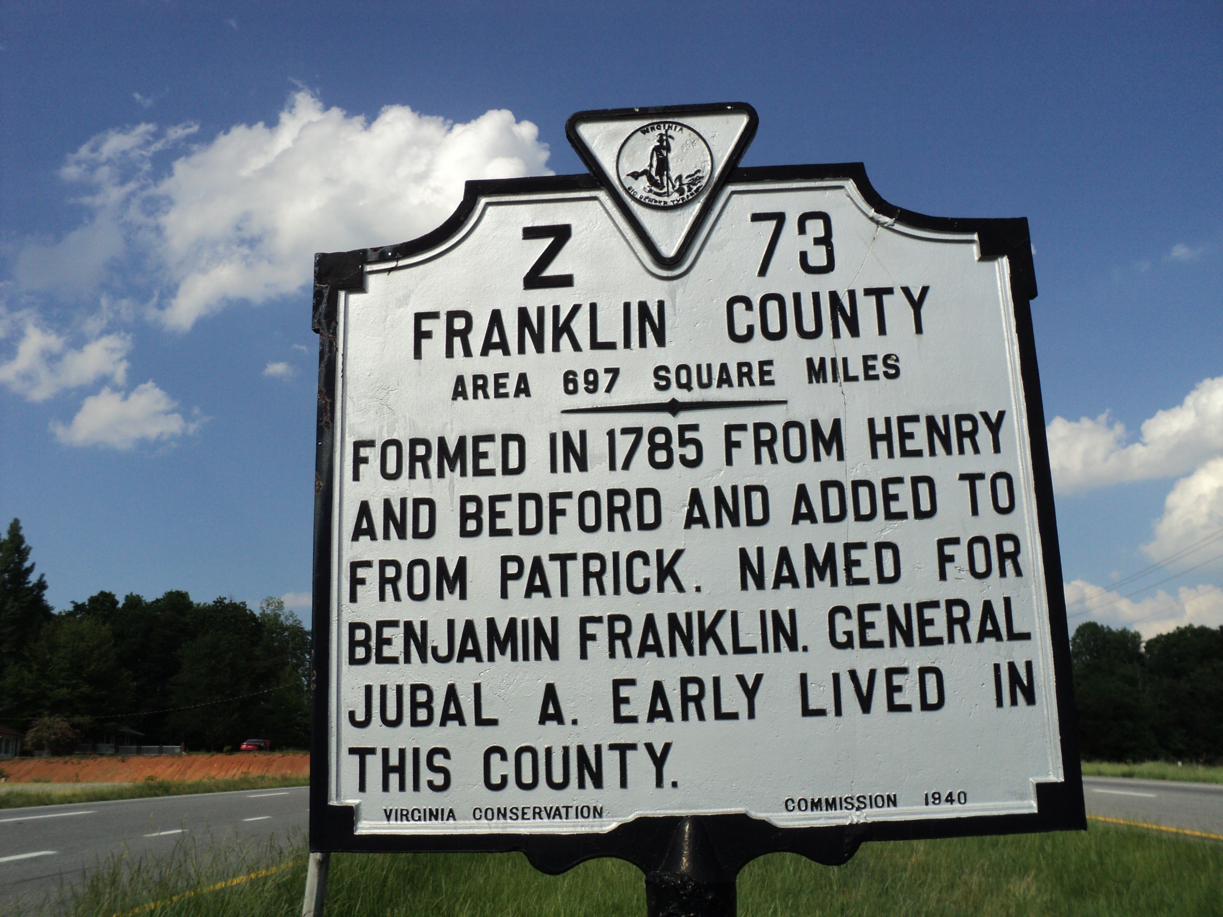 Historic marker for Franklin County, Virginia, Virginia Conservation Commission.